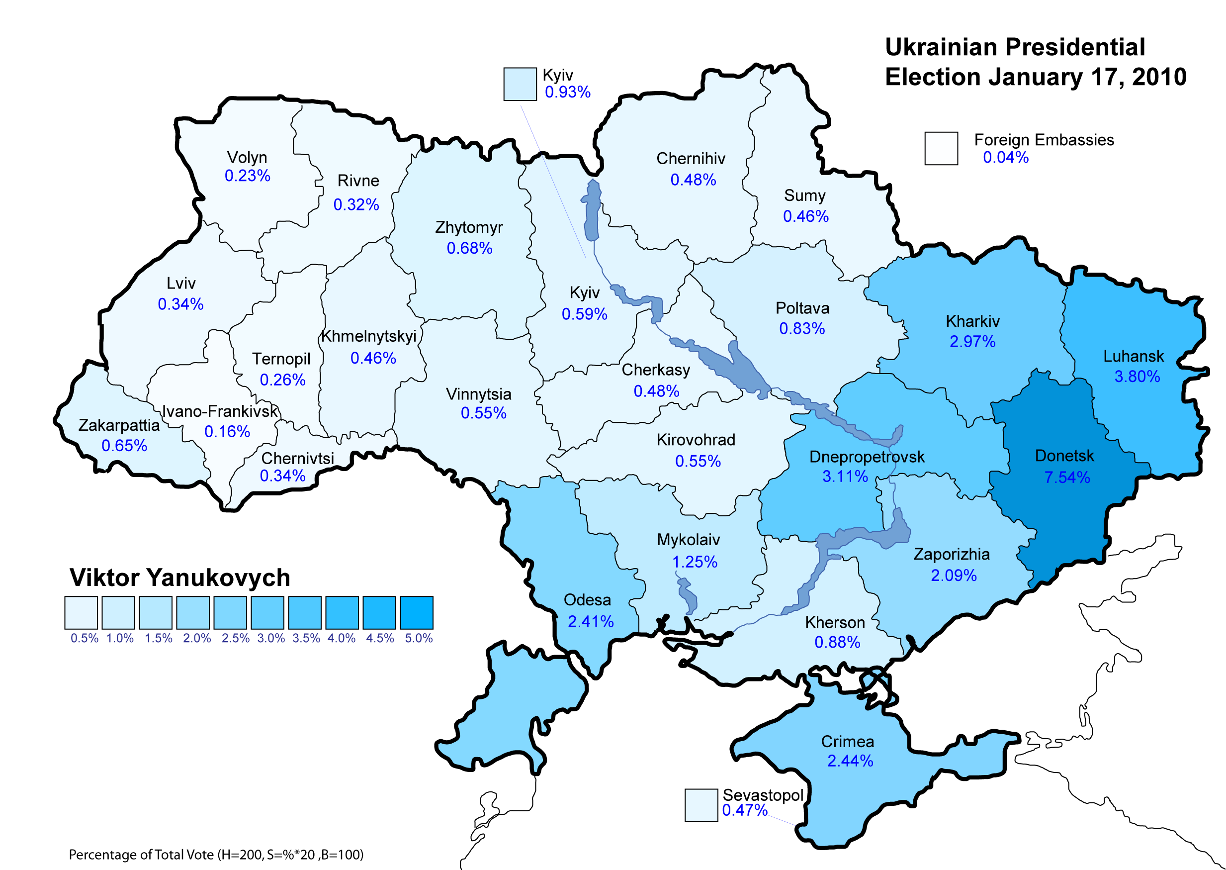 Ukrainian Presidential Election January 2010 - Viktor Yanukovych (First Round)